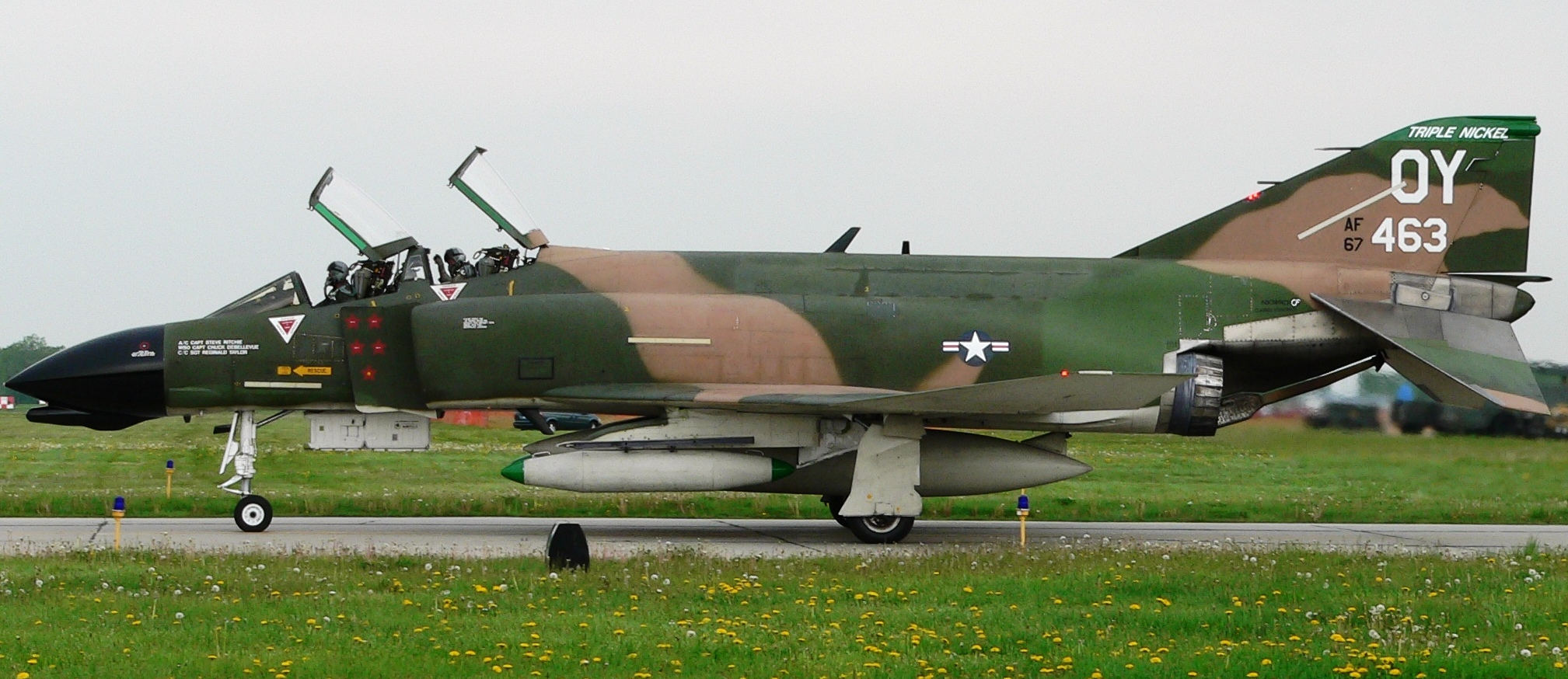 An F-4D owned by the Collings Foundation taxis at Selfridge ANGB, Michigan in May 2005. The plane has the markings of the Steve Ritchie / Chuck DeBellevue fighter from the Vietnam War.